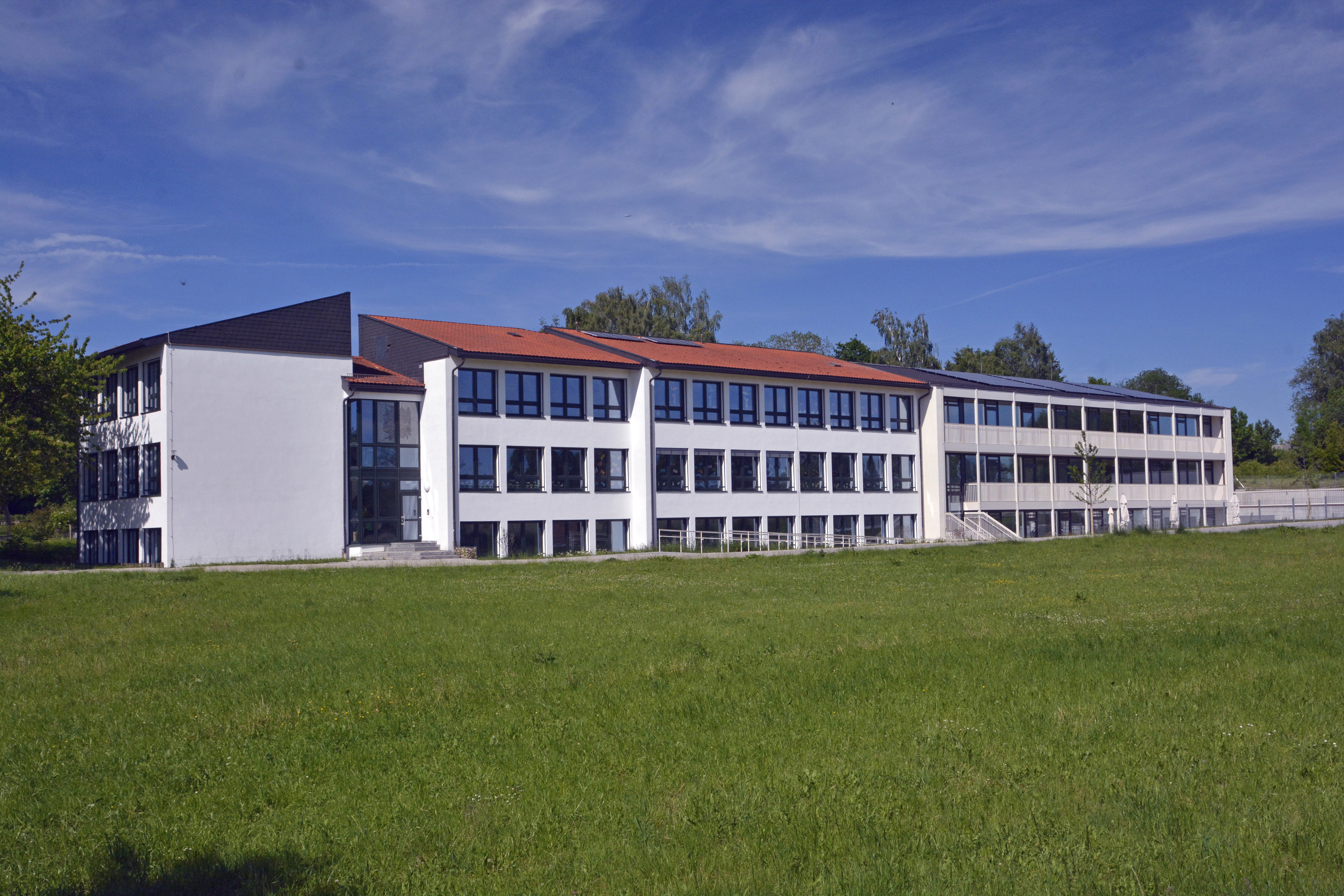 Primary School Vierkirchen (Upper Bavaria)